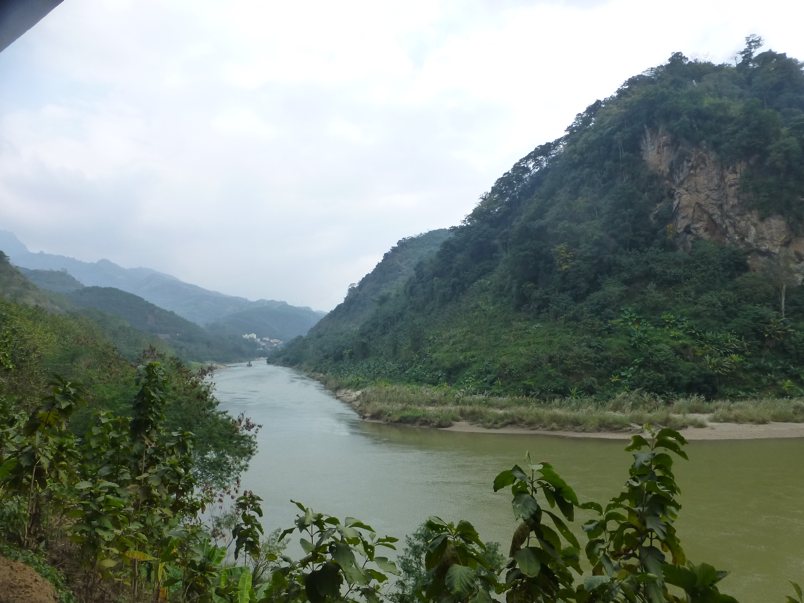 In the valley of the Red River in Lianhuatan Township (Hekou County, Yunnan), between Manhao highway exit and Lianhuatan township center.